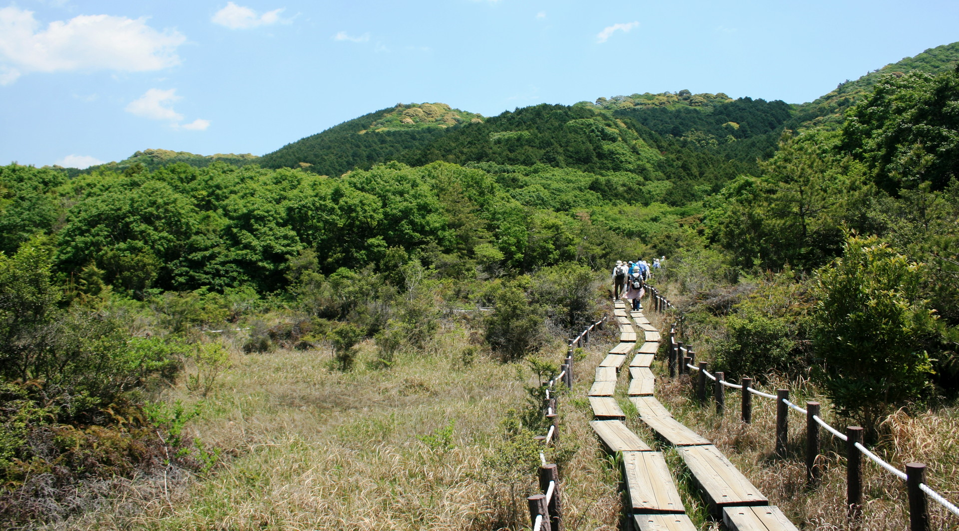 Imo Wetland in Yumihari Mountains, Toyahashi, Aichi prefecture, Japan.